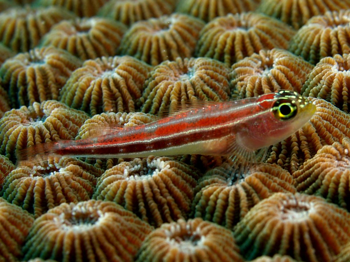 Helcogramma striata (Neon triplefin) on Diploastrea heliopora (Hard coral)